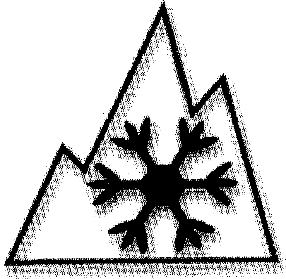 "In order to enable the agency to ascertain which tires are to be tested at 110 km/h, the agency is adding a labeling requirement to all PC snow tires and LT snow tires with load ranges of C, D, and E that are certified at this test speed. The manufacturers must mark their snow tires with the Alpine Symbol if they wish to certify their snow tires to the special requirements applicable to snow tires. The use of the Alpine Symbol will have the added benefit of enabling consumers to identify snow tires that provide a higher level of snow traction compared to all-season tires. However, the tire manufacturers are not obligated to do so if they wish to certify their snow tires to the normal requirements of the Standard. Thus, only the snow tires certified to the reduced test speed requirements must display an Alpine symbol (as shown below), on at least one sidewall. The symbol is currently required in Canada as a means of identifying snow tires. If the manufacturers choose to mark their snow tires with the Alpine Symbol, the mountain profile must have a minimum base of 15 mm and a minimum height of 15 mm, and must contain three peaks with the middle peak being the tallest. Inside the mountain profile, there must be a six-sided snowflake having a minimum height of one-half the tallest peak."